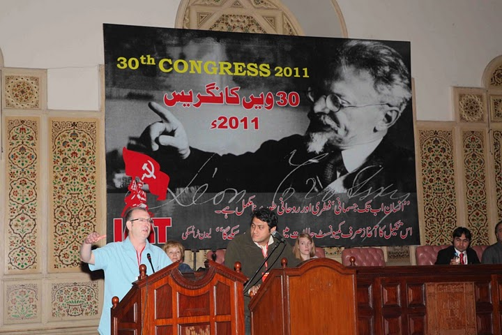 A representative of the International Marxist Tendency, Rob Sewell editor of Socialist Appeal the UK arm of IMT, addressing the 2011 congress of The Struggle in Pakistan.